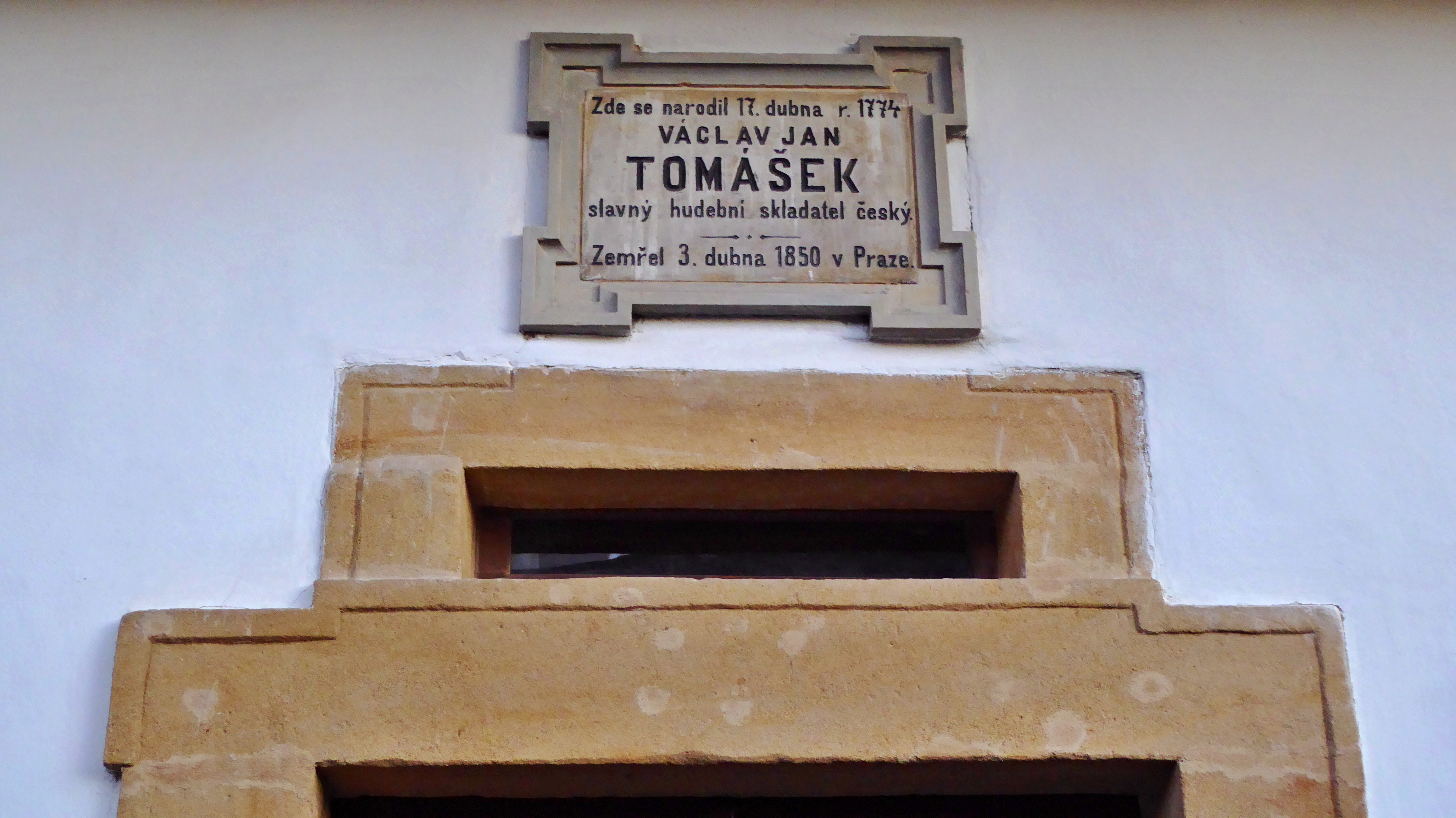 Václav Jan Křtitel Tomášek (1774 - 1850), composer and teacher, memorial plaque on his native house in Skuteč. Photo location - Czechia, Pardubice Region, Skuteč town.